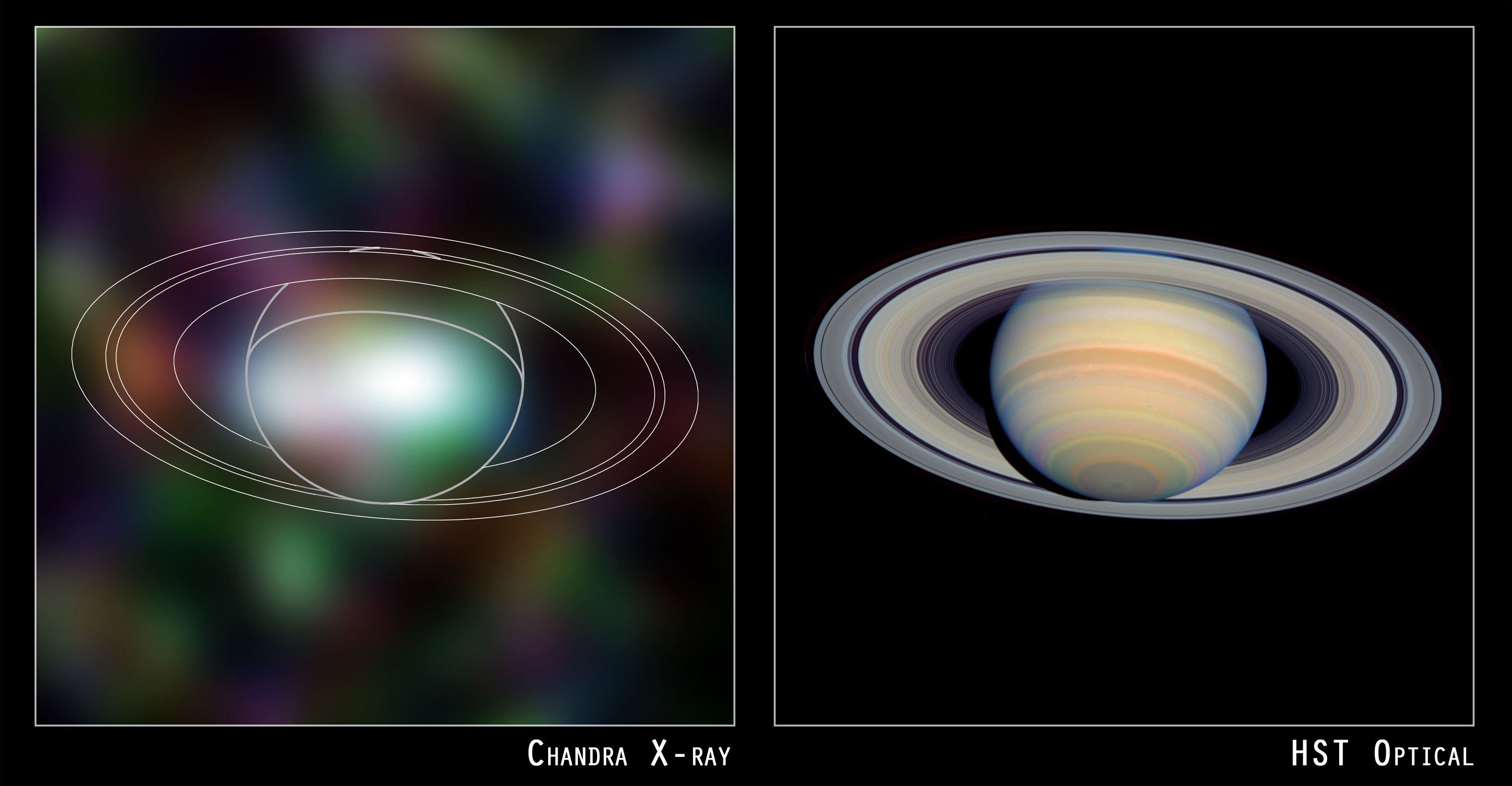 Chandra's image of Saturn (left) and Hubble optical image of Saturn (right). Saturn's X-ray spectrum is similar to that of X-rays from the Sun indicating that Saturn's X-radiation is due to the reflection of solar X-rays by Saturn's atmosphere. The optical image is much brighter, and shows the beautiful ring structures, which were not detected in X-rays. Observation period: 20 hrs, April 14-15, 2003. Color code: red (0.4 - 0.6 keV), green (0.6 - 0.8 keV), blue (0.8 - 1.0 keV).